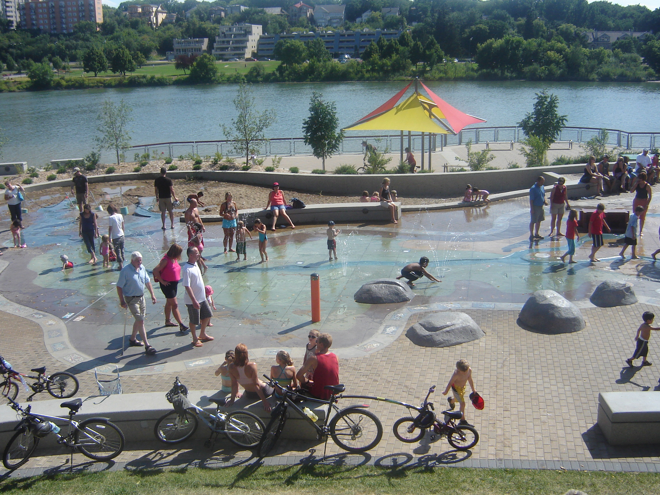 Water Park depicting the South Saskatchewan River course at River Landing Central Business District, Saskatoon, Saskatchewan, Core Neighbourhoods SDA, Saskatoon